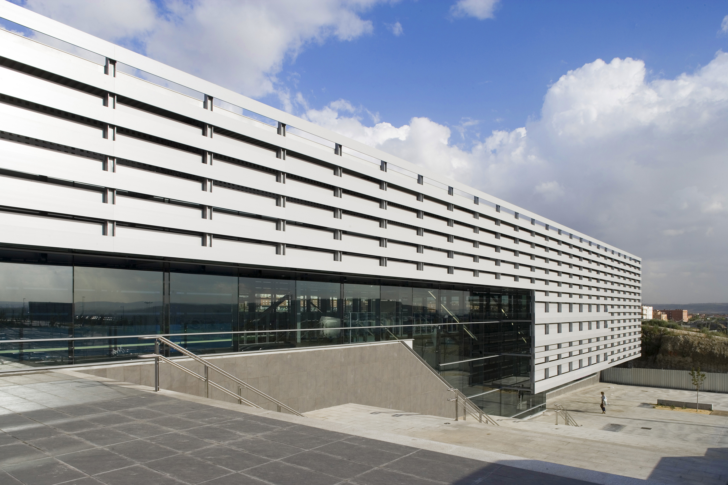 METRO Station Rivas-Futura [eL2Gaa]